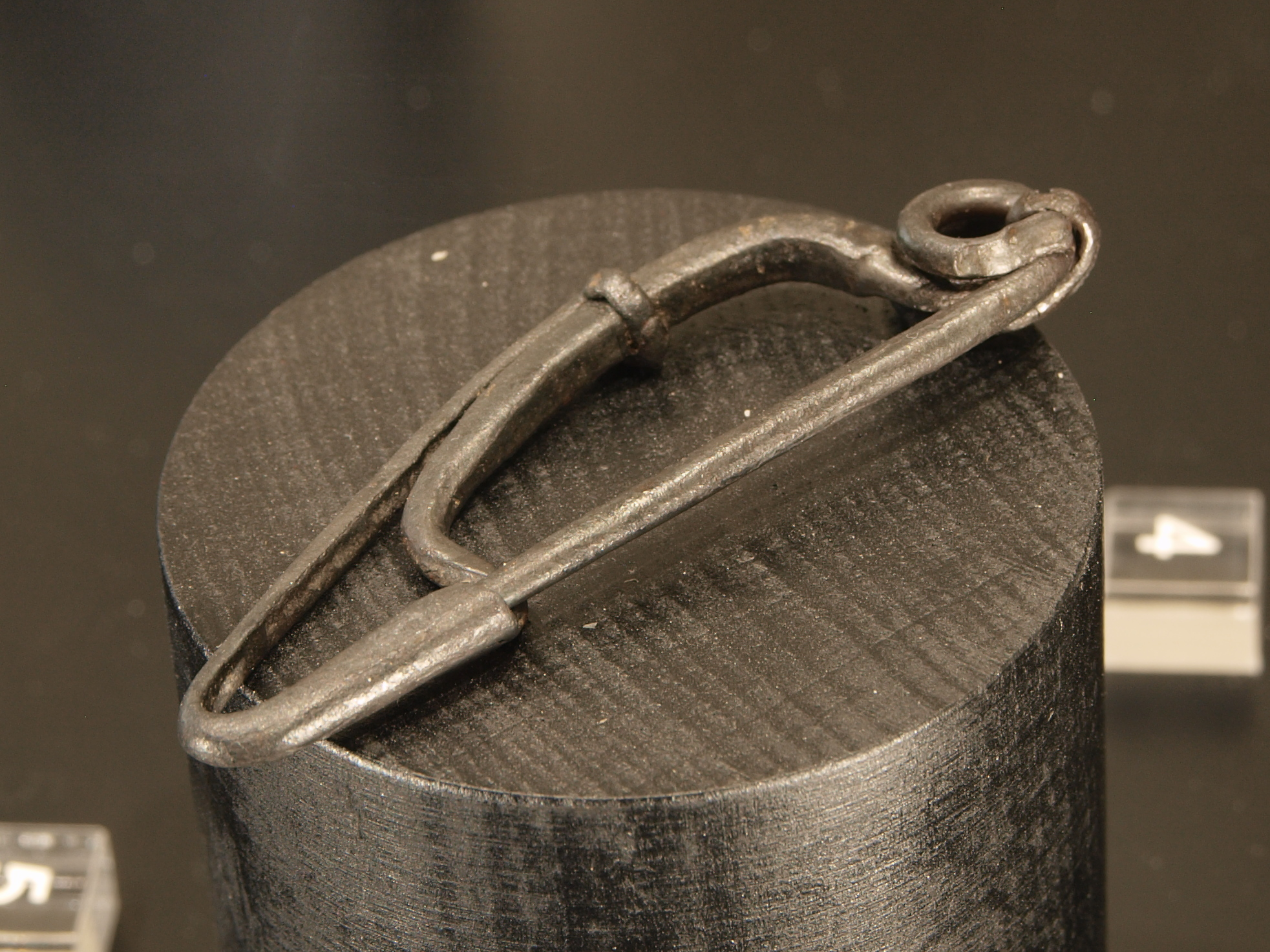 Silver fibula from Hamburg-Fuhlsbüttel, Germany. Pre-Roman Iron Age / Roman Empire circa 400-100 B.C. At Archäologisches Museum Hamburg